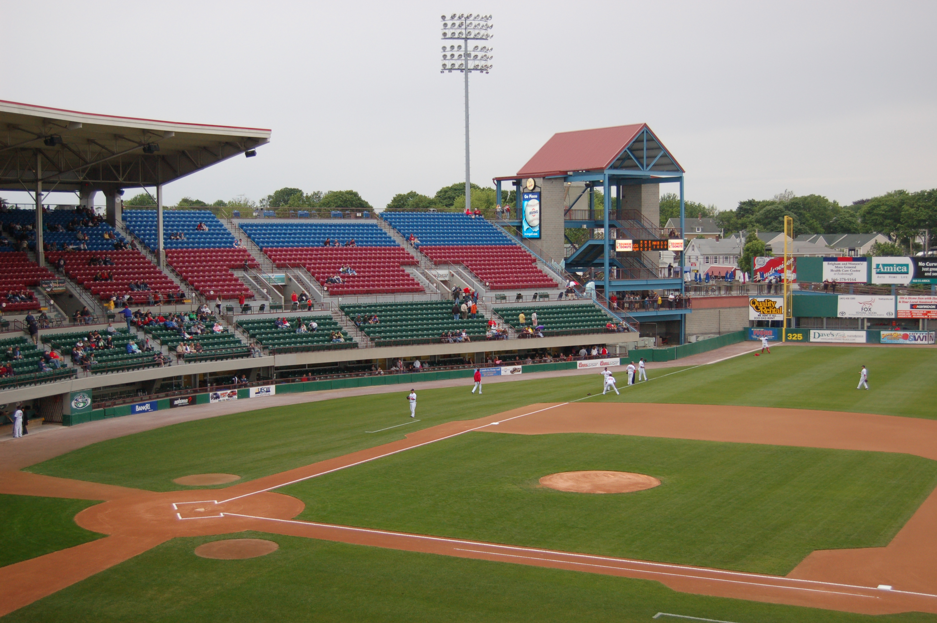 McCoy Stadium's infield.